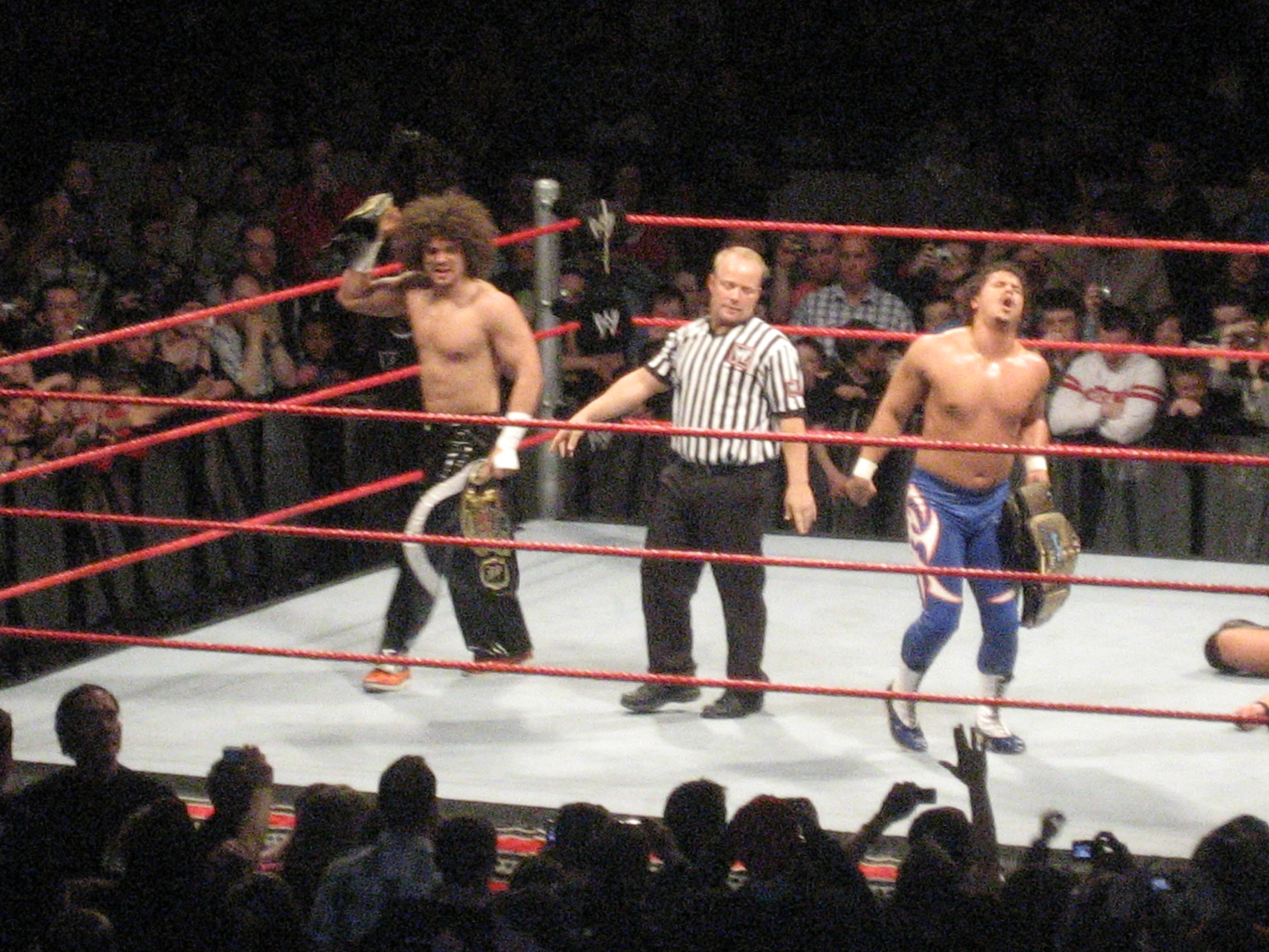 The Colóns as the Unified Tag Team Champions. The Colóns shown here were the first Unified WWE Tag Team Champions.